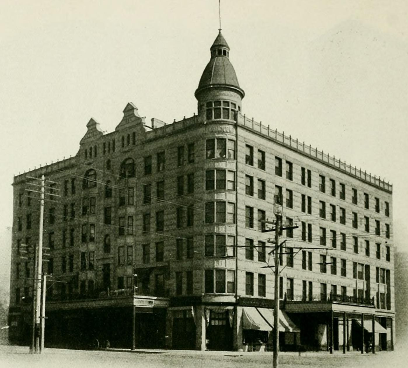 Title: "Seeing Salt Lake City" being an illustrated description of a tour through Salt Lake City on the observation cars of the American Sight-Seeing Car and Coach Company .. Year: 1905 (1900s) Authors: American Sight-seeing Car Subjects: Utah Salt Lake Salt Lake City Description Views Publisher: (S.l: s.n.) Text Appearing Before Image: The Townsend House. Text Appearing After Image: THE KNUTSFORD HOTEL, G. S. Holmes, Proprietor. One of the famous hotels of the Inter-mountainCountry, and historically noted from its being built on the spot where irrigation was first attemptedby Anglo-Saxons. owned at that time by the pioneer journalists, Hon. C. C. Goodwin and P. H. Lannaii. The Tribune is nowthe property of ex-Senator Thomas Kearns and David Kielh. Across the street is the office of the Salt LakeTelegram operated as an evening paper under the same ownership. One block brings us to the cars third turning bringing the Dooley Block, one of the citys imposingstructures, upon the right hand. These corners may rightfully be termed railroad square, for underneaththe Dooley Block is located the offices of the Denver and Rio Grande Railway, while directly opposite arethe offices of the Burlington Route. As the car swings into Second South Street, but a few doors fromthe corner is passed, on the right, the offices of the Illinois Central and the Colorado Midland Railways.At